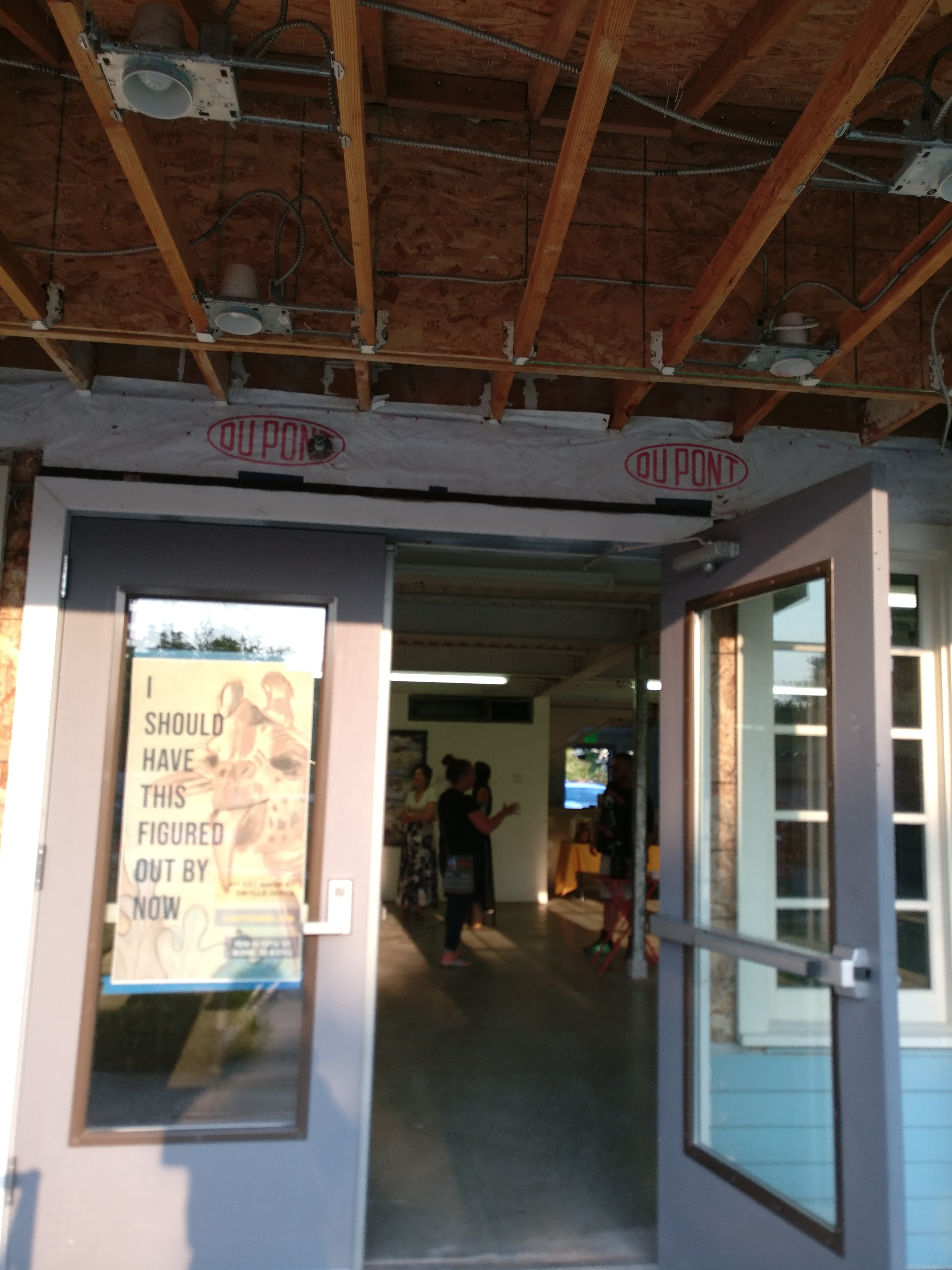 A one-evening pop-up art show in the North End neighborhood of Boise, Idaho in a building under renovation; the theme was climate change, featured in a whimsical, surrealistic manner.